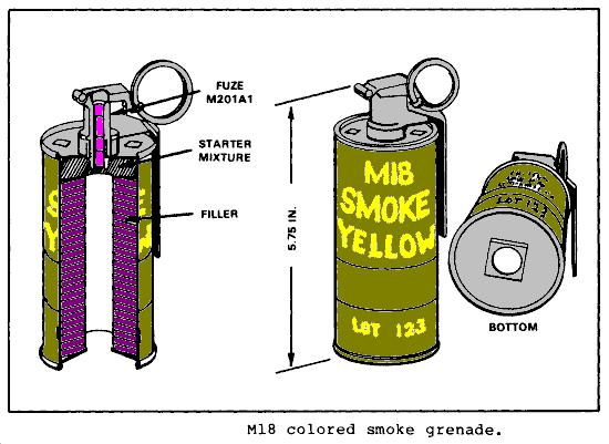 smoke grenade